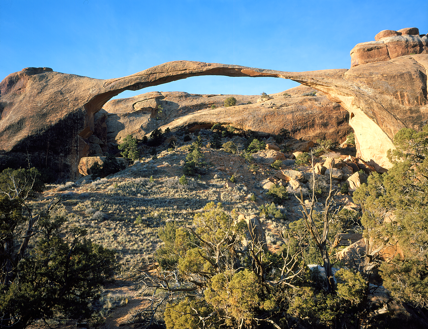 Arches National Park